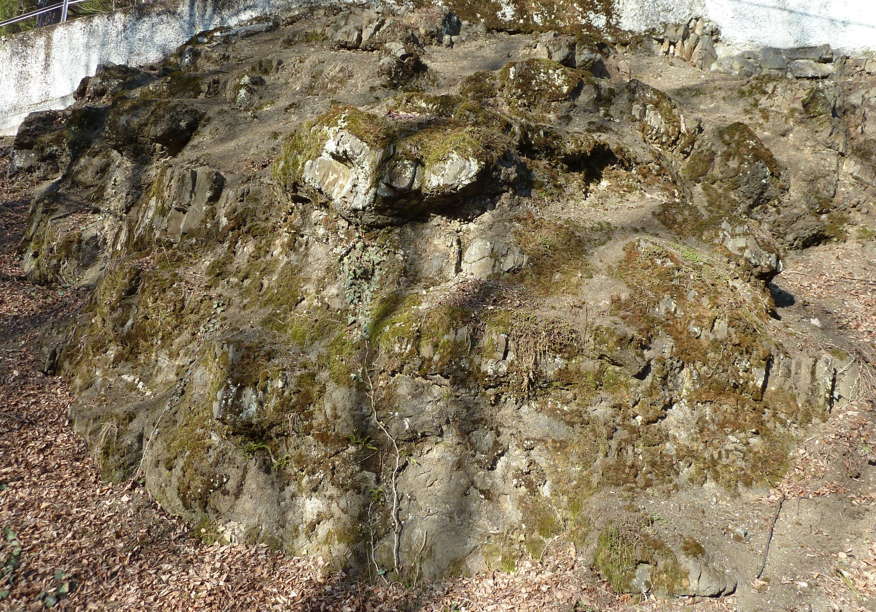 Nature monument "Polštářové lávy ve Straníku" in village Straník (Nový Jičín district, nort-eastern Moravia, Czech Republic)